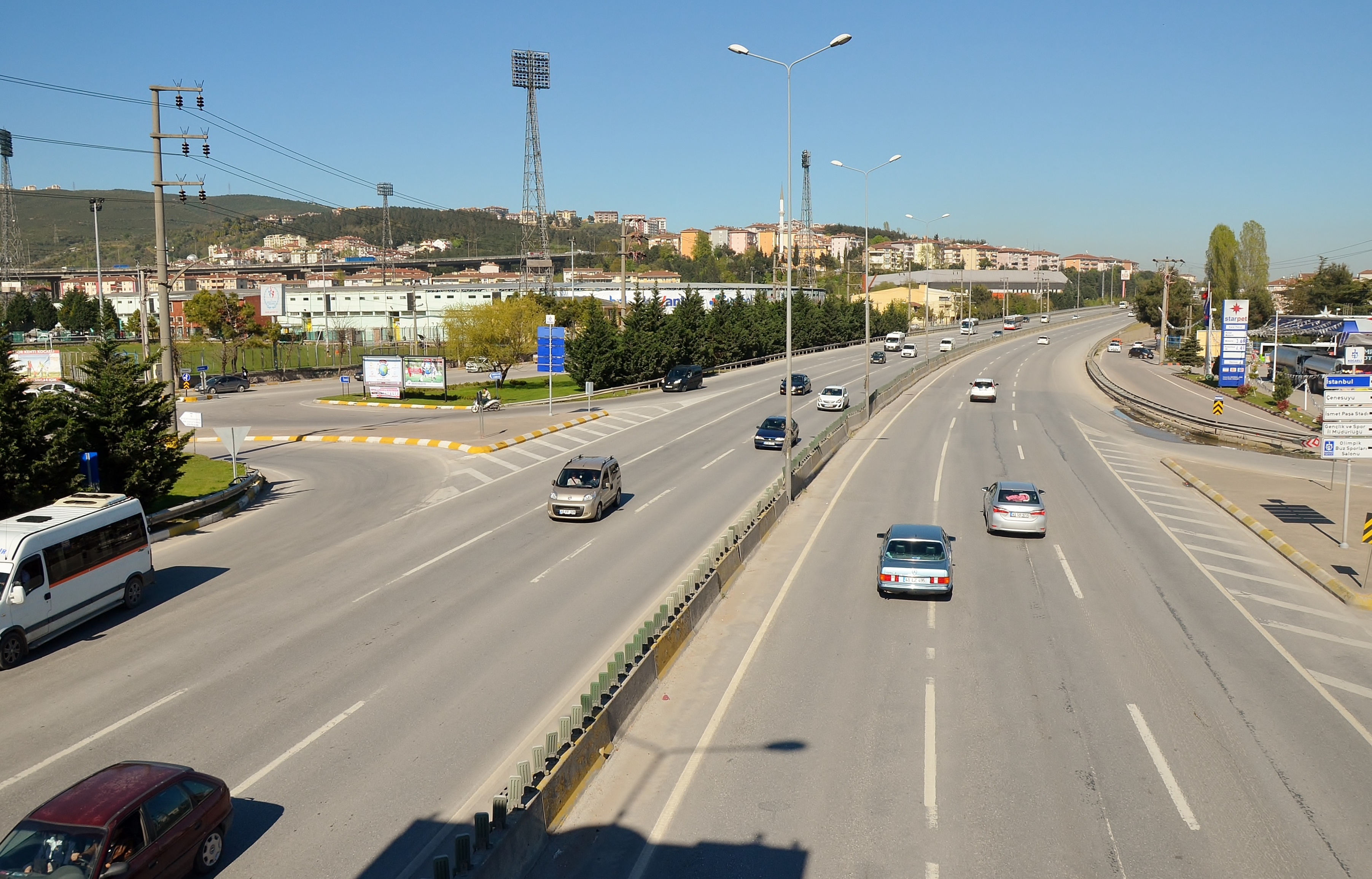 State road D-100 in Derince, Kocaeli Province Turkey